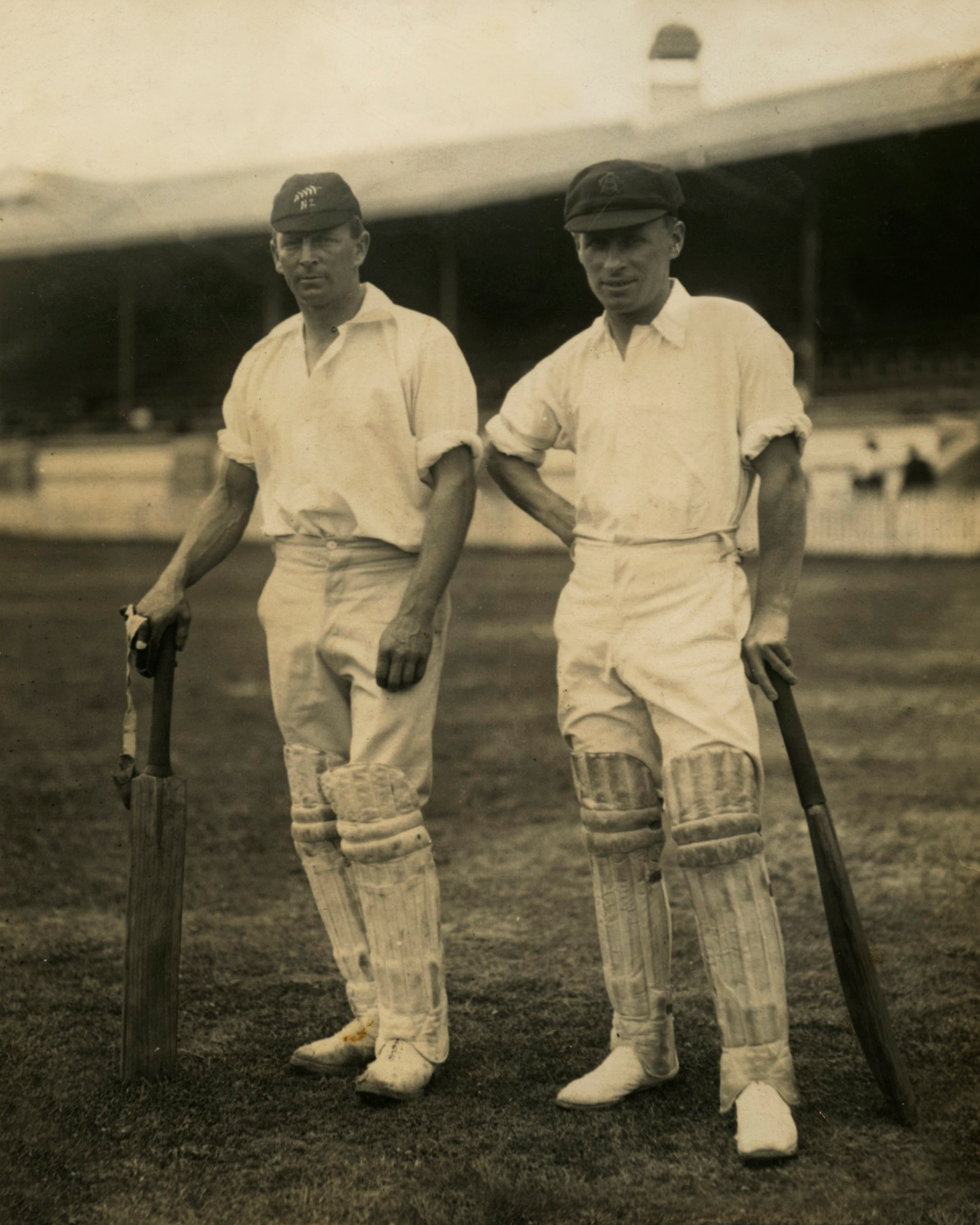 Alec Grant in cricket gear on the right